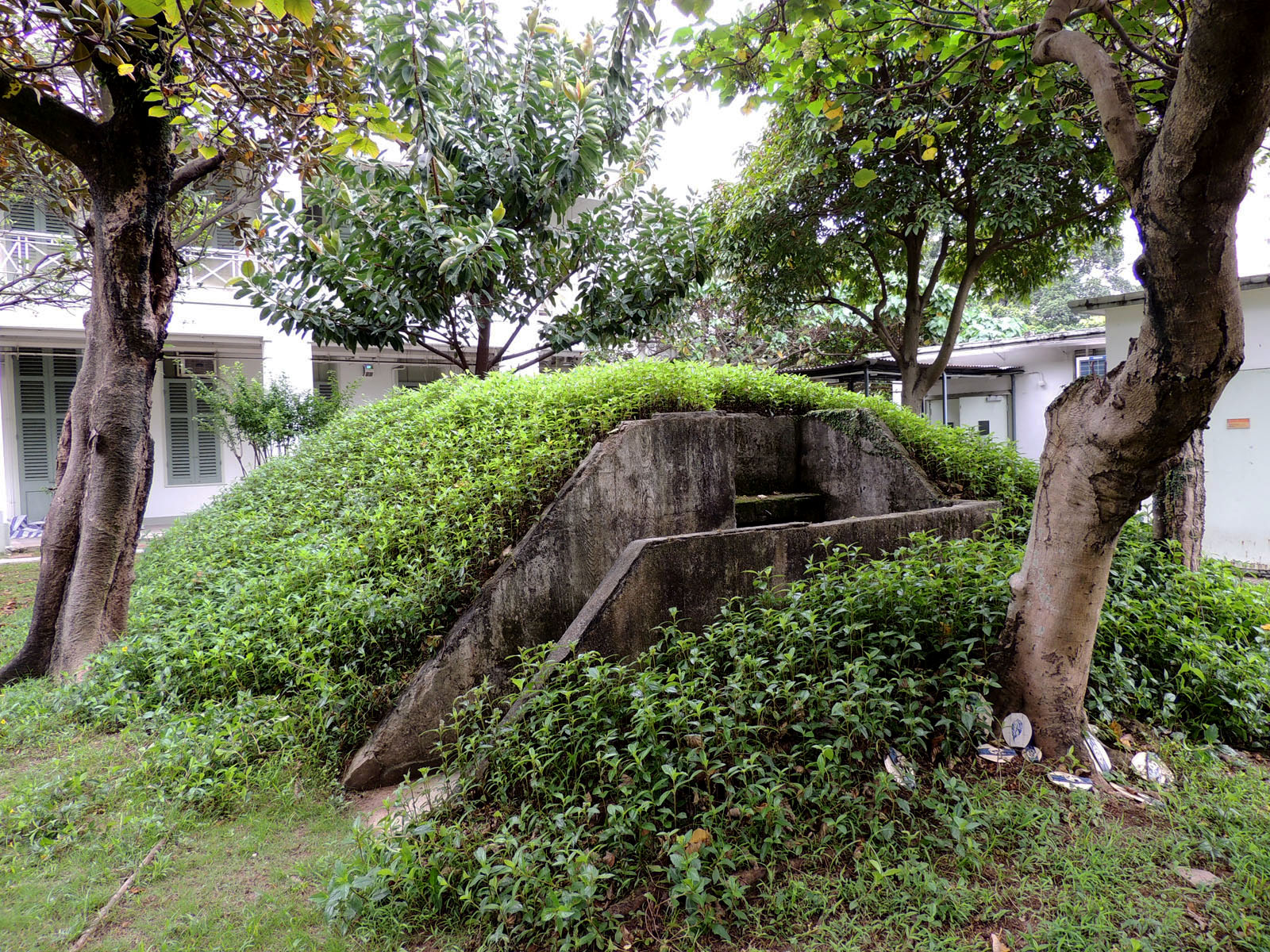 Air raid shelter, Ex-Royal Air Force Station (Kai Tak), Officers' Quarters